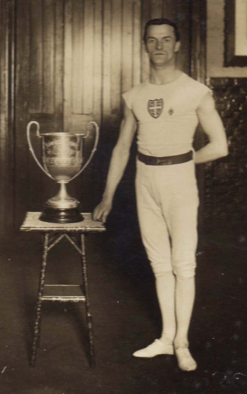 Edward William Potts (born 12 July 1881 - died September 15, 1944) was a British gymnast who competed in the 1908 Summer Olympics and in the 1912 Summer Olympics. Photograph taken for and owned by my family. E W Potts was my grandfather.